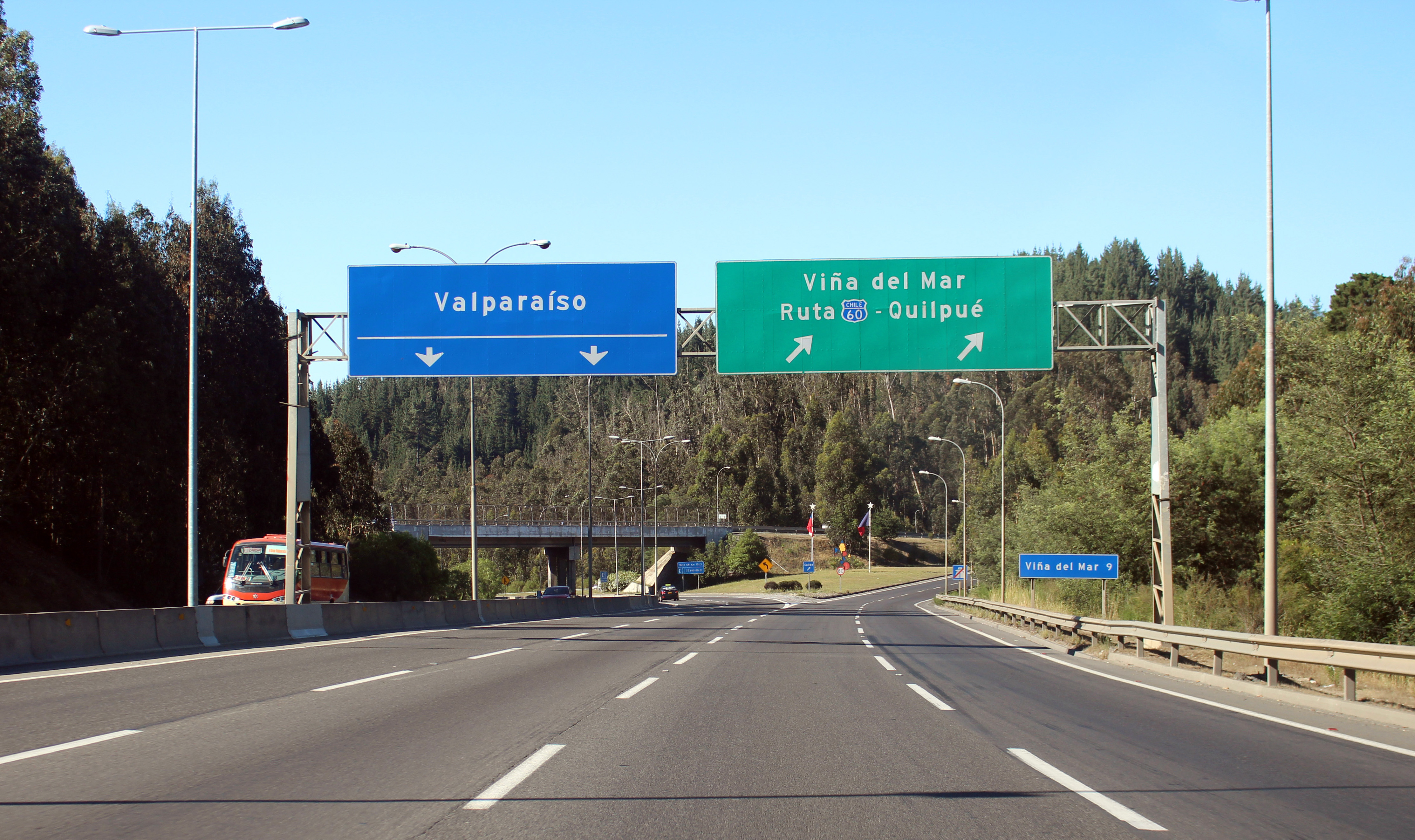 Chile Route 68 northbound approaching the interchange with Route 60. Photographed on November 26, 2016 by user Coolcaesar.